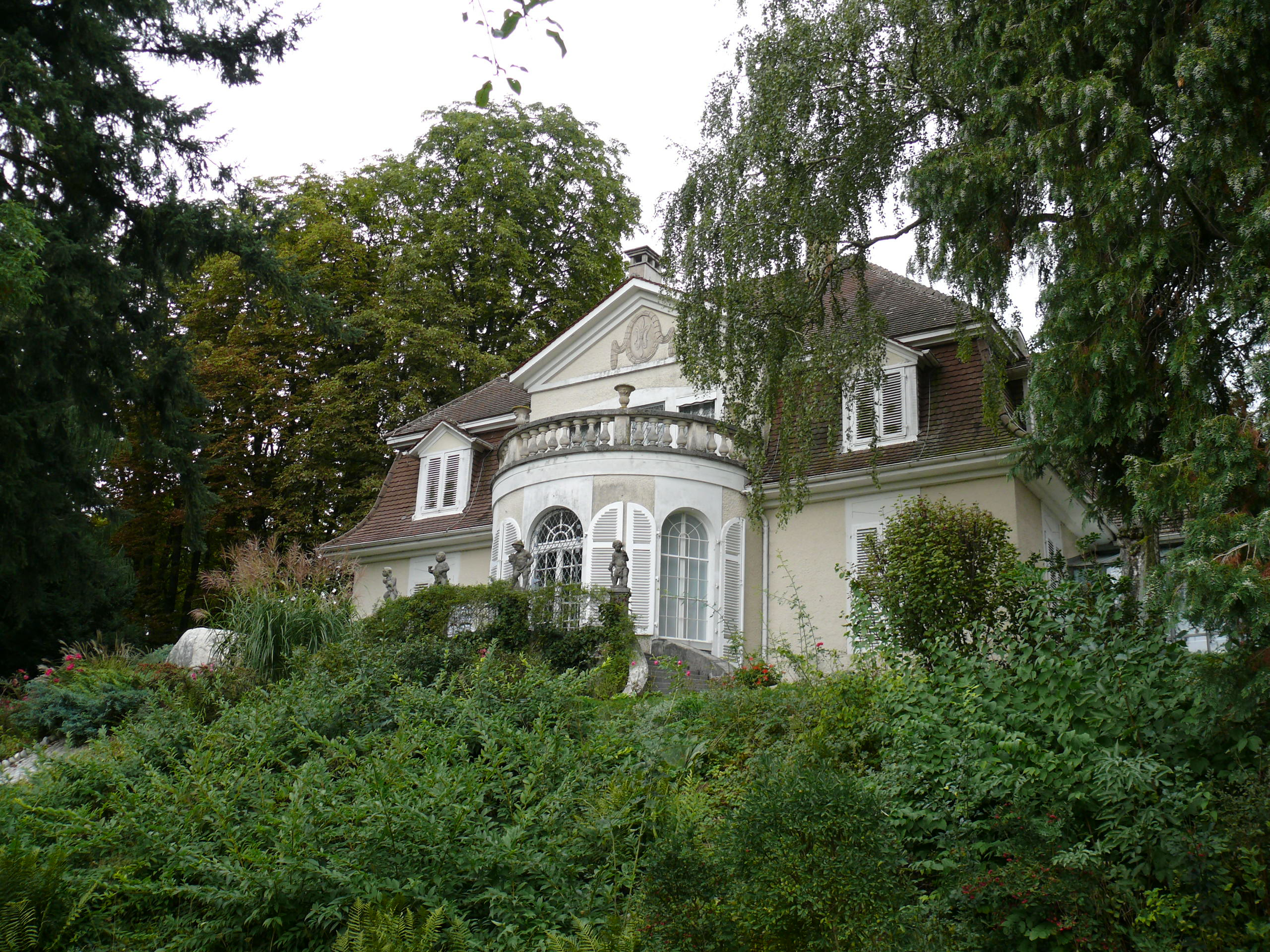 Museum Villa Rot, Burgrieden-Rot, as seen from the garden; photograph taken on September 16th 2008